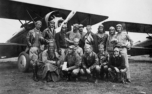 Iconic photograph of aviators from the Constitutionalist Aviation Group (GACC) in front of a Waco CSO, at the then Campo de Marte aerodrome, in the São Paulo capital, during the 1932 Revolution. Identified, standing (from left to right) ): 2nd Lieutenant João Sylvio Hoeltz; Major Lysias Augusto Rodrigues, commander of the GACC; 1st lieutenant José Ângelo Gomes Ribeiro; 2nd lieutenant Eugênio Sodré Borges (the seventh standing); Lieutenant Plínio (the eighth standing); and the 2nd lieutenant Nicolino dos Reis Costa (the ninth standing). And seated (from right to left): 2nd lieutenant Mário Machado Bittencourt; captain José Machado Daniel; 2nd lieutenant Vicente Pelegrini; and 1st lieutenant Arthur da Motta Lima Filho (the fifth). Image from the collection of the Tudo por São Paulo 1932 page. Source: "Gaviões de Penacho" (1934) by Major Lysias Augusto C. Rodrigues.